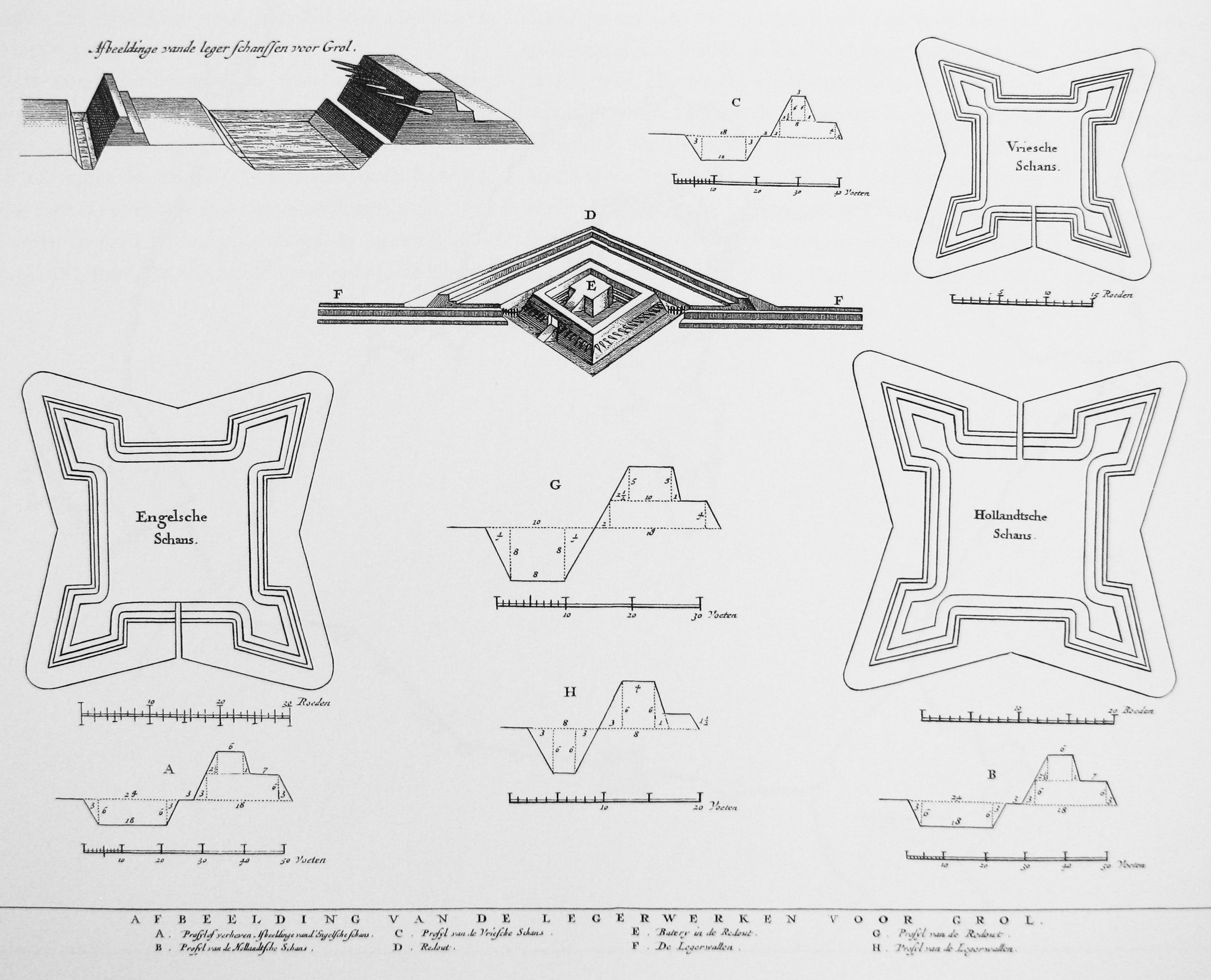 The siege works that were used during the siege of Grol (Groenlo) in 1627.